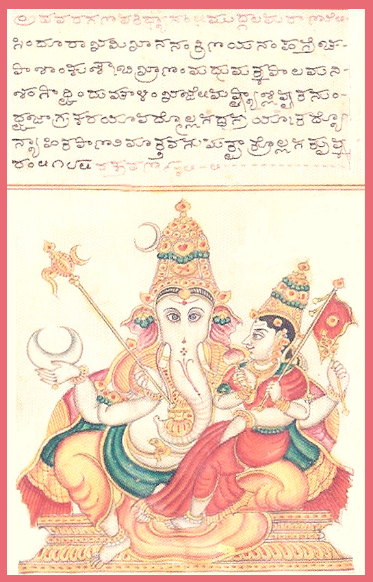 Reproduction from the Śrītattvanidhi ("The Illustrious Treasure of Realities"), an iconographic treatise compiled in the 19th century in Karnataka, India, by order of the then Maharaja of Mysore, Krishnaraja Wodeyar III (b. 1794 - d. 1868).